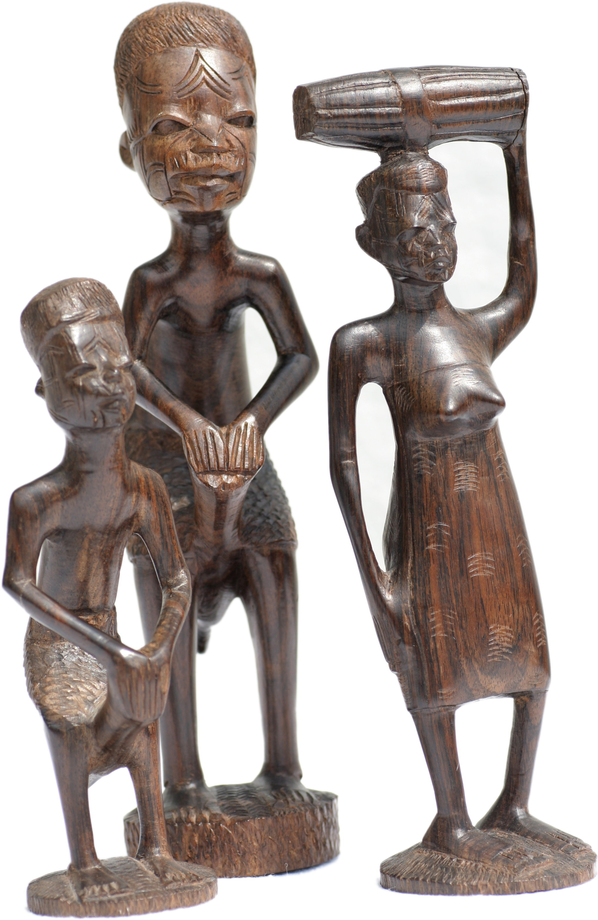 Carving from Makonde. About 1967